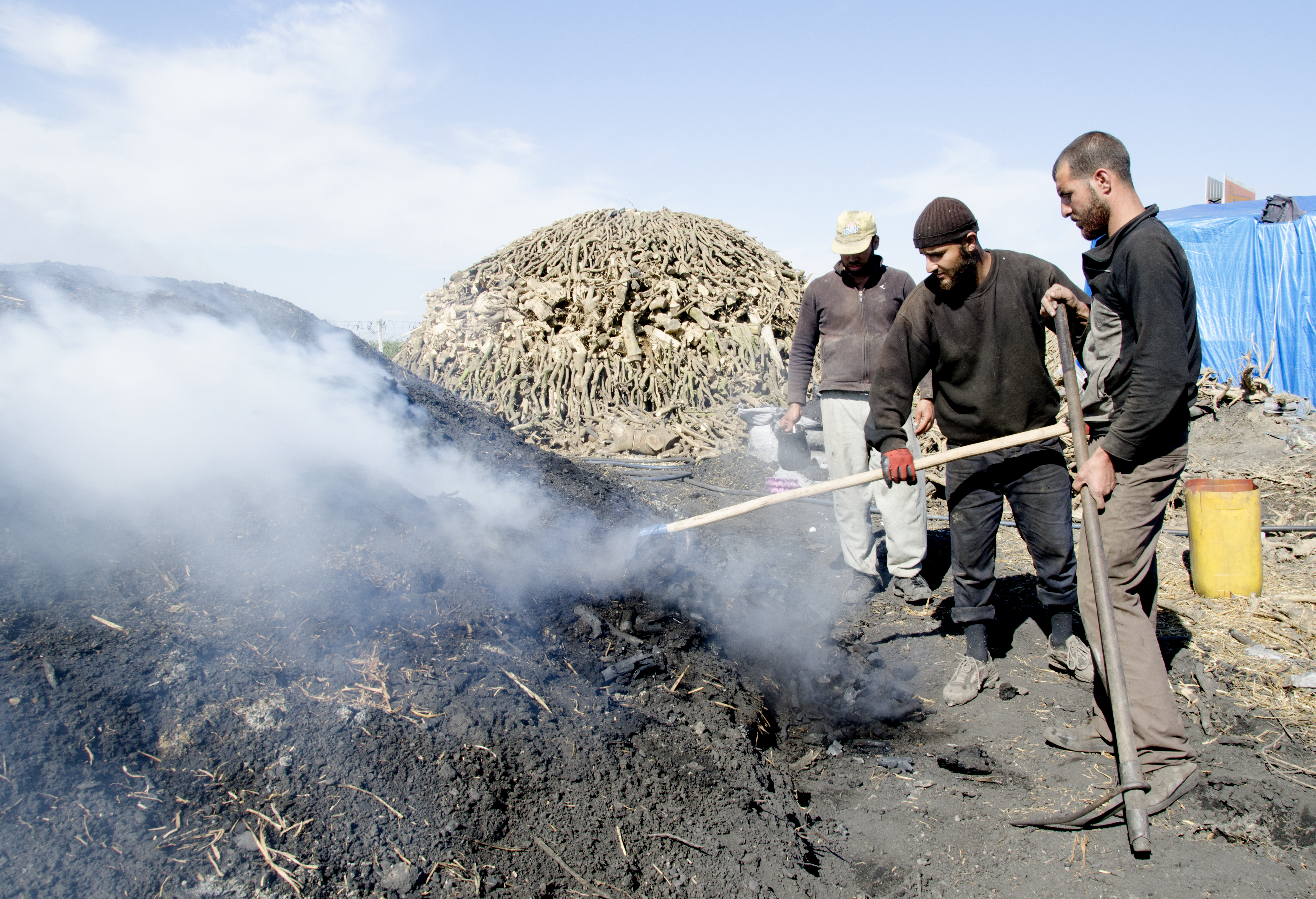 Charcoal makers shovelling coals. Karataş - Adana, Turkey.